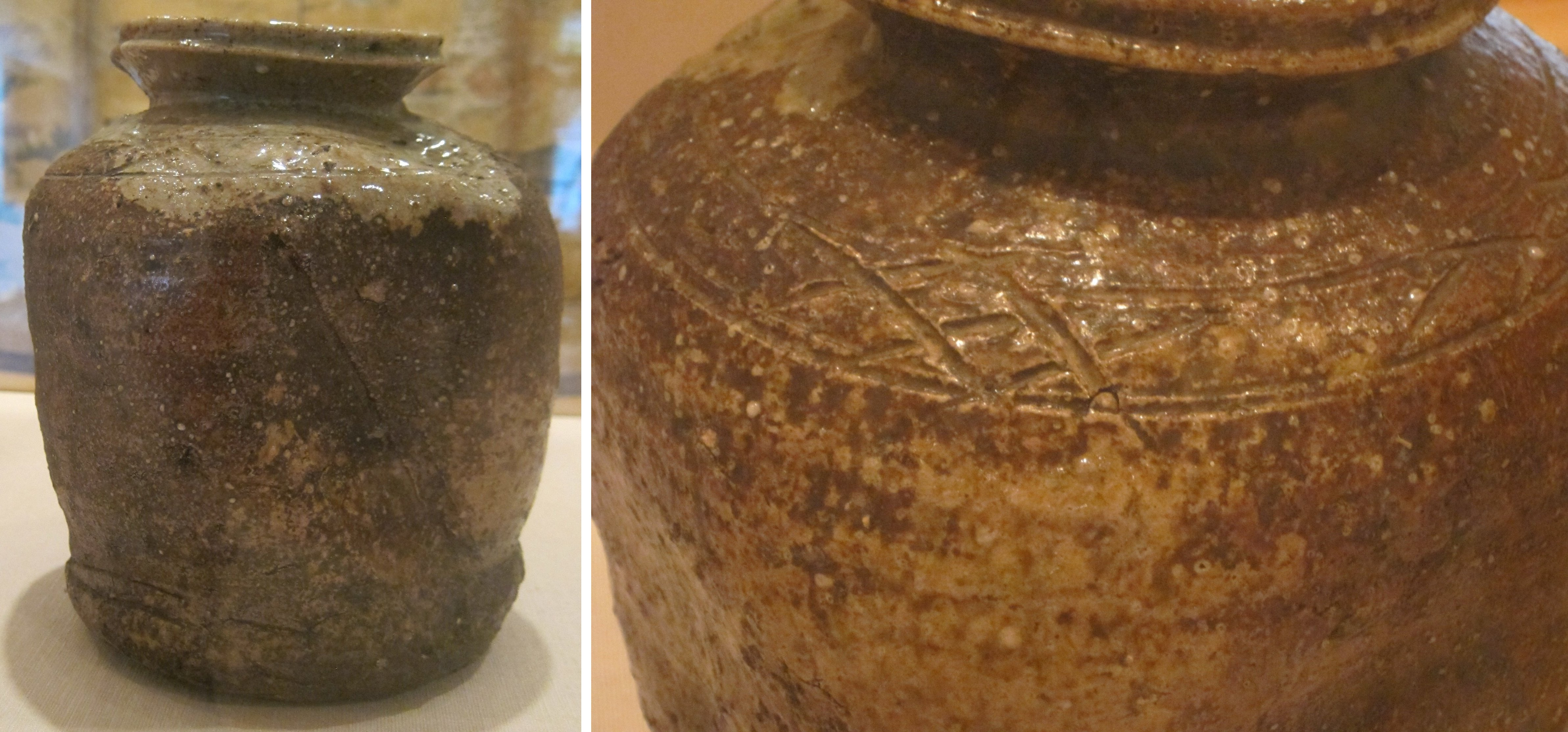 Jar from Japan, Momoyama period (1573-1615), shigaraki glazed stoneware, Honolulu Academy of Arts